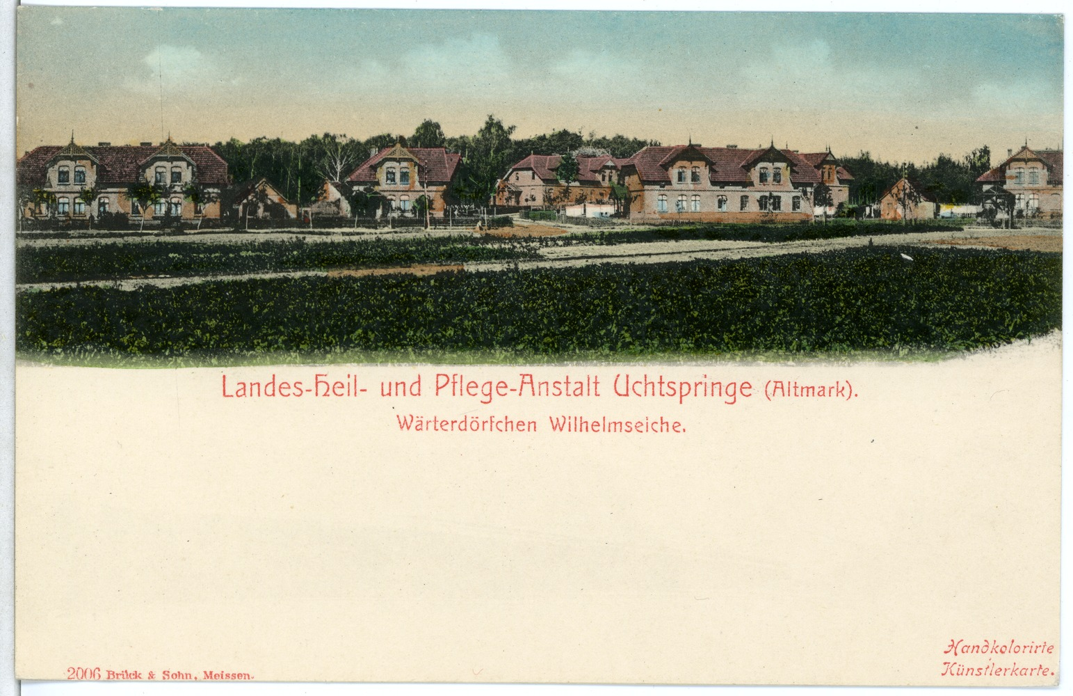 This postcard is from publisher Brück & Sohn in Meißen ( This postcard has a unique number 02006 and is available in a higher resolution at the publisher. This images was uploaded in a cooperation project between Wikipedians and the publisher.